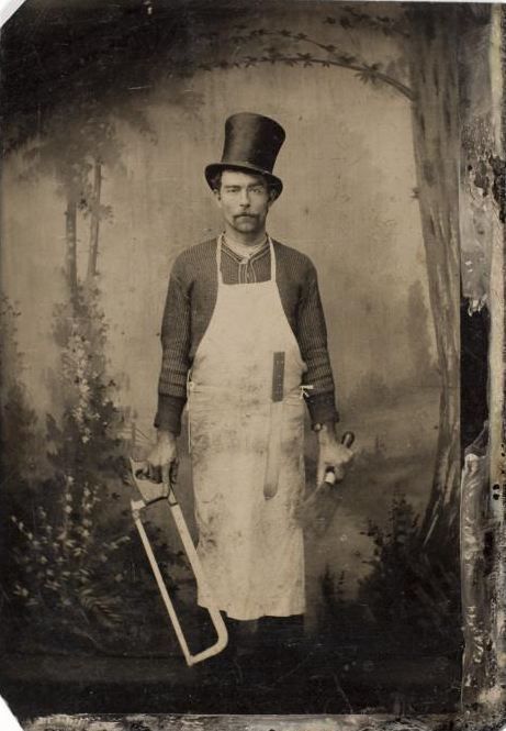 Butcher holding tools, tintype, circa 1875